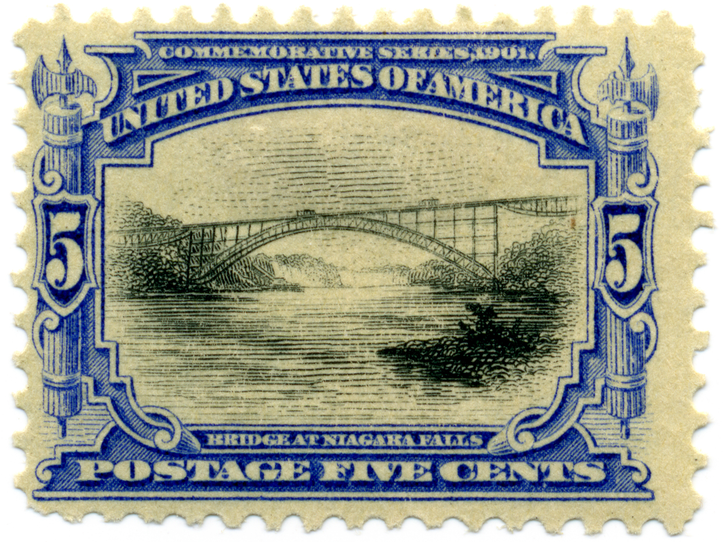 5-cent 1901 commemorative United States postage stamp, depicting "Bridge at Niagara Falls". Part of the 1901 Pan-American Exposition commemorative series.